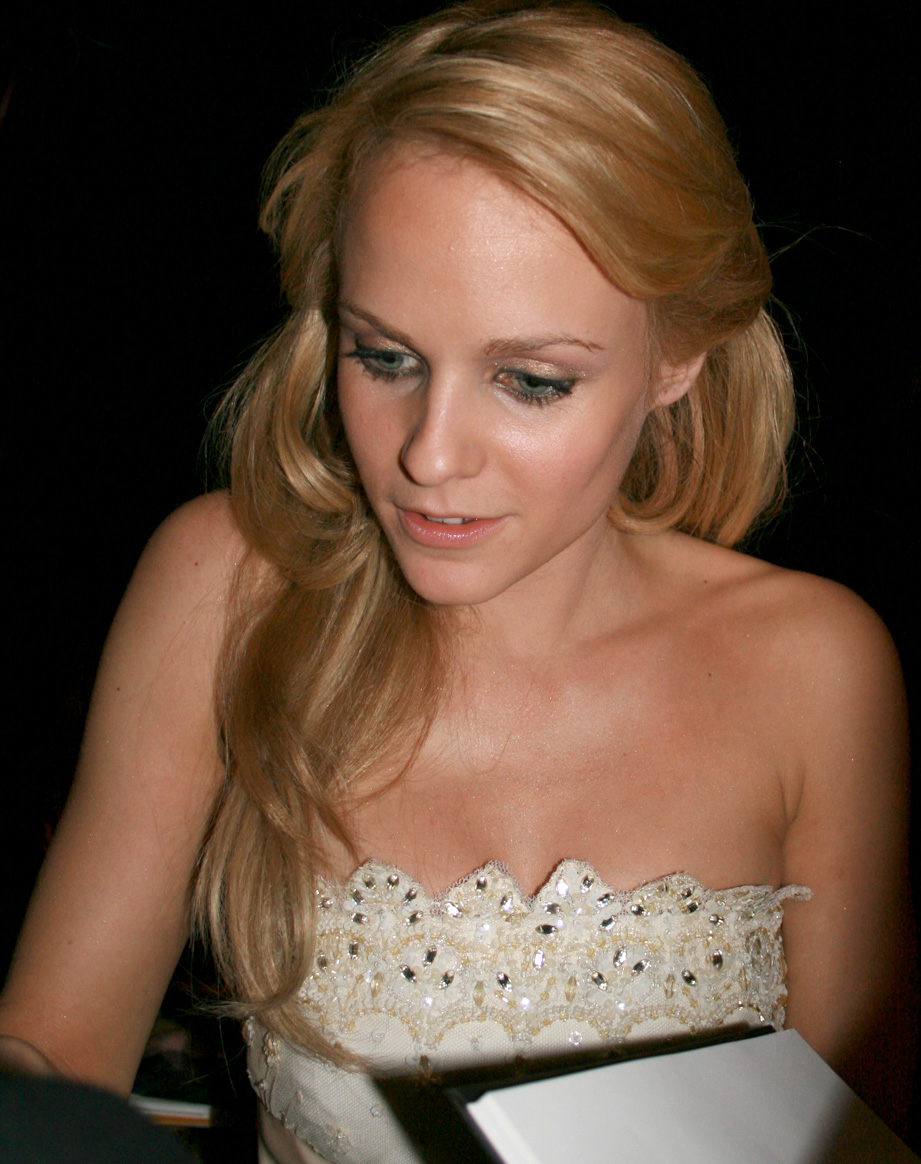 Presenter and actress Mirjam Weichselbraun at the Romy TV awards (Hofburg Imperial Palace in Vienna)